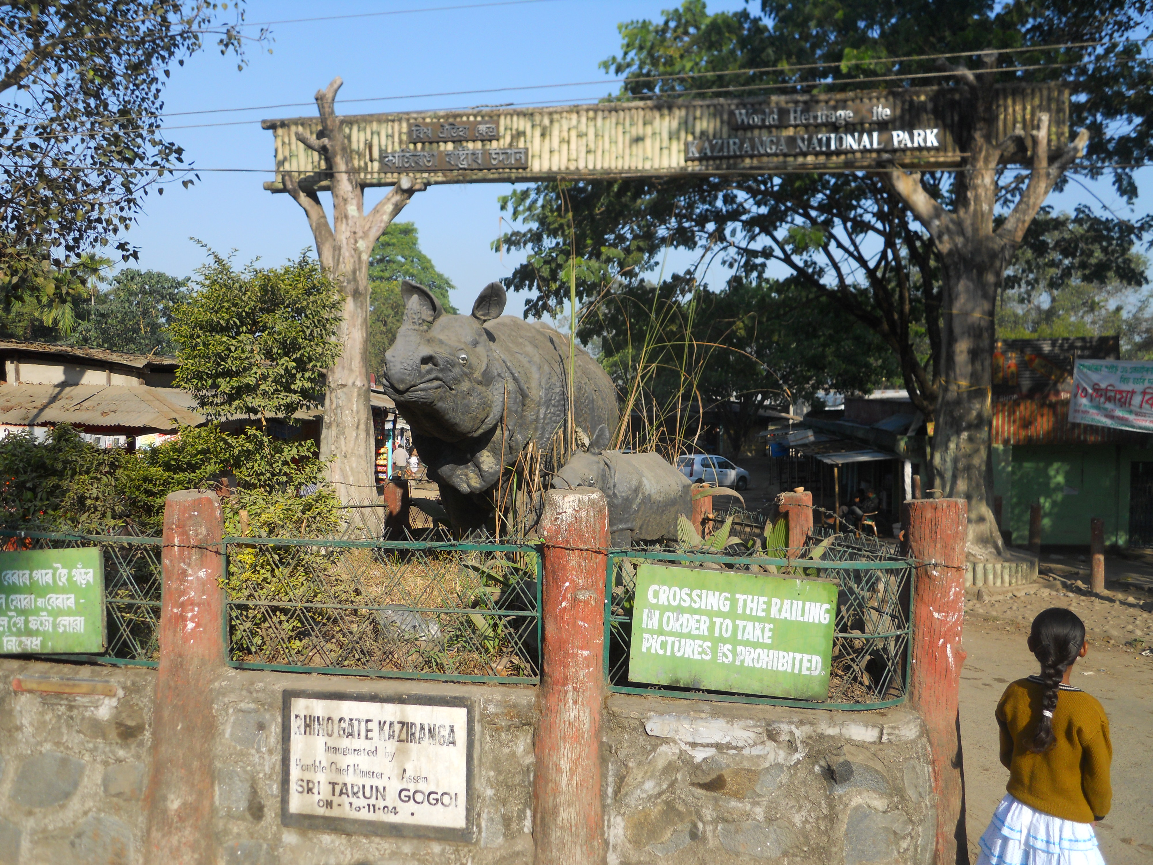 Entrance Gate of Kaziranga National Park, Golaghat, Assam